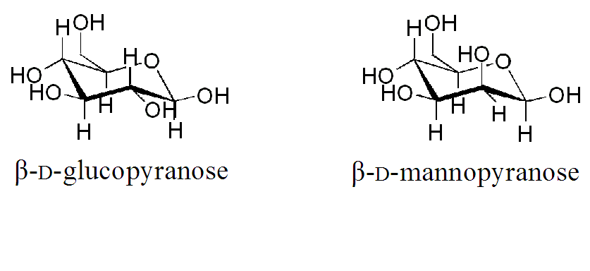 A pair of epimers, beta-D-glucopyranose and beta-D-mannopyranose